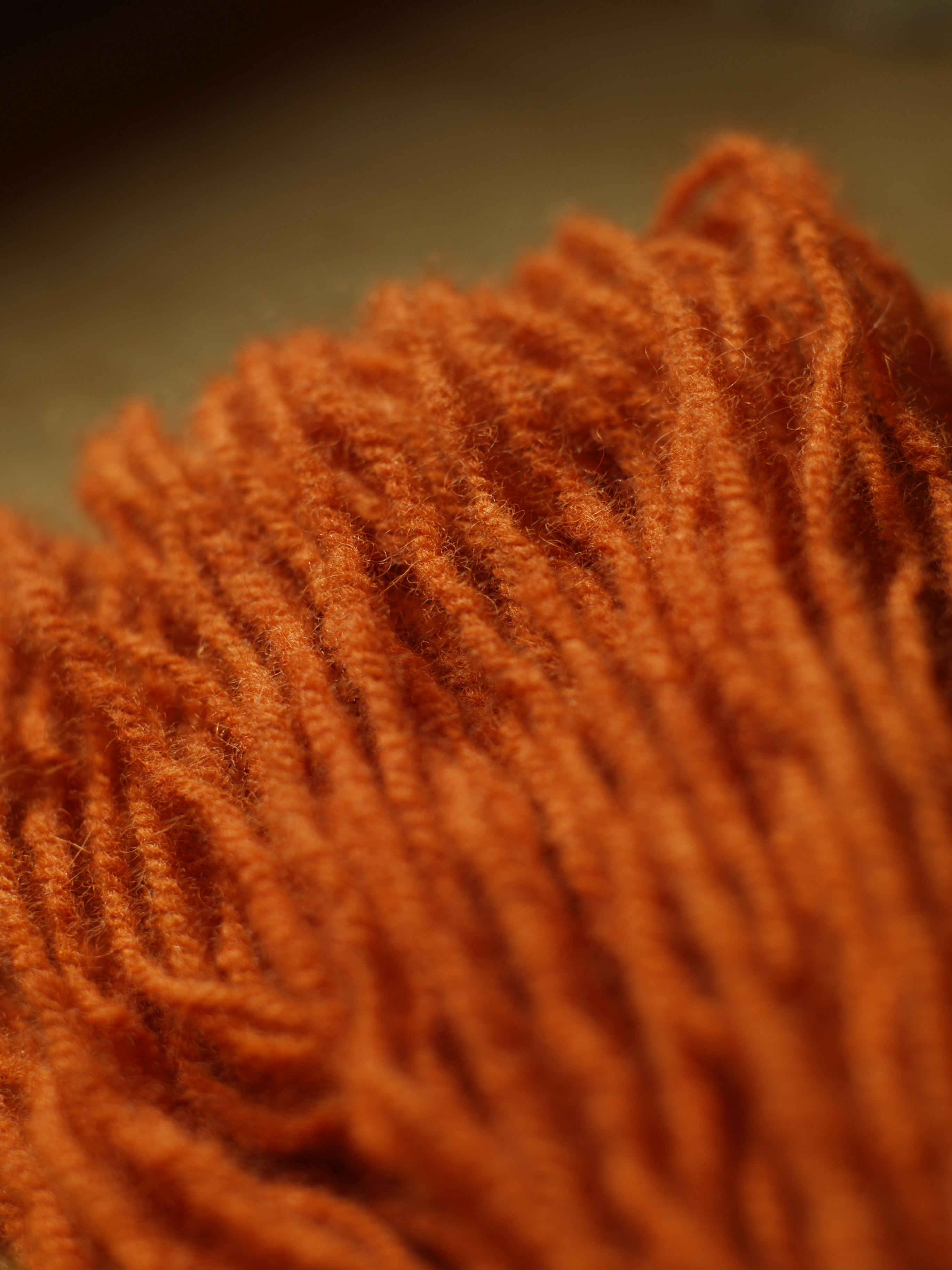 Wool yarn dyed with Cortinarius semisanguineus in Finland